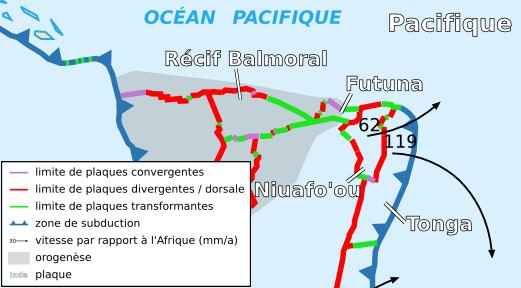 Map of the Futuna Plate